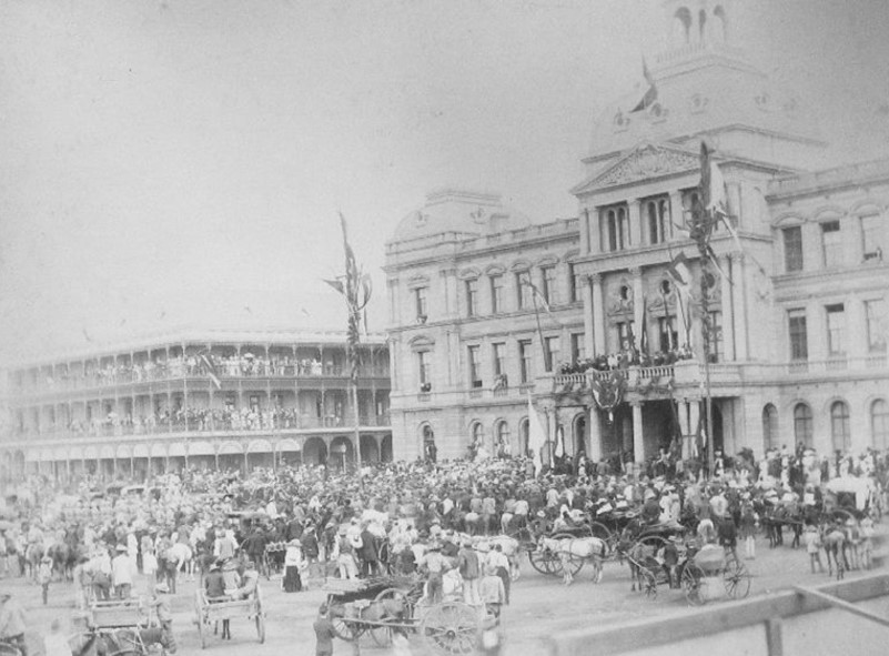 South africa - Transvaal - Pretoria - Old Raadsaal, Receiving the president Paulus Kruger(signed in the back: Pretoria, Empfang des Präsidenten)